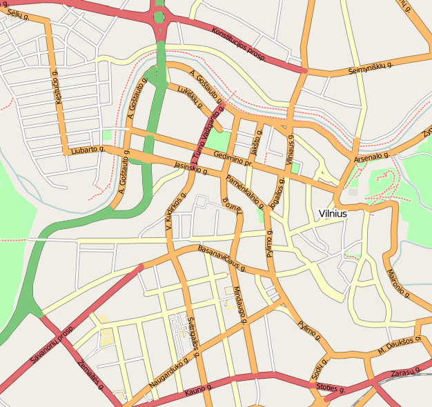 Vilnius Center as generated in OpenStreetMap (Mapnik layer)